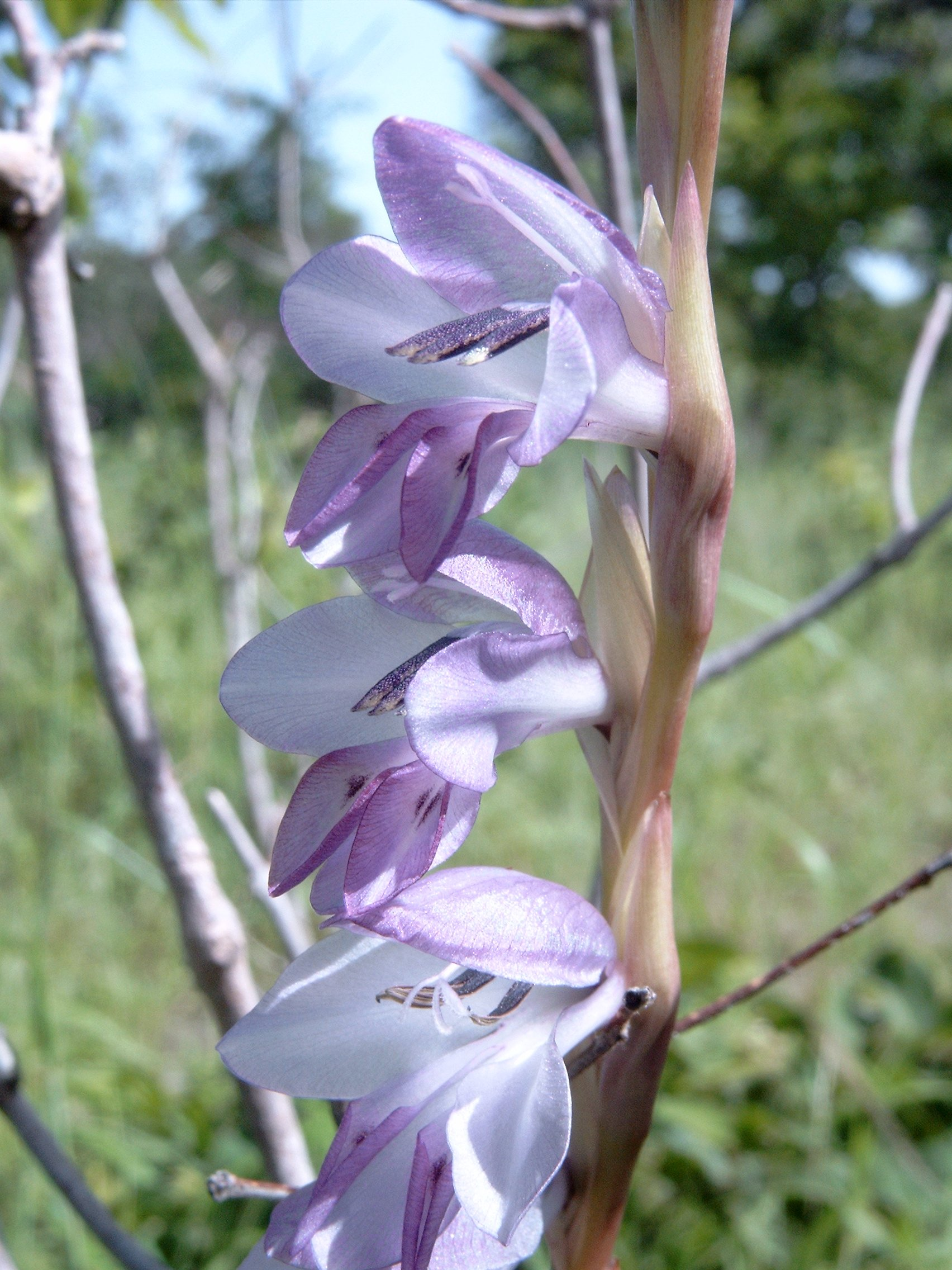 Flowers of Gladiolus gregarius (synonym G. klattianus). near Fada N'Gourma, Burkina Faso.